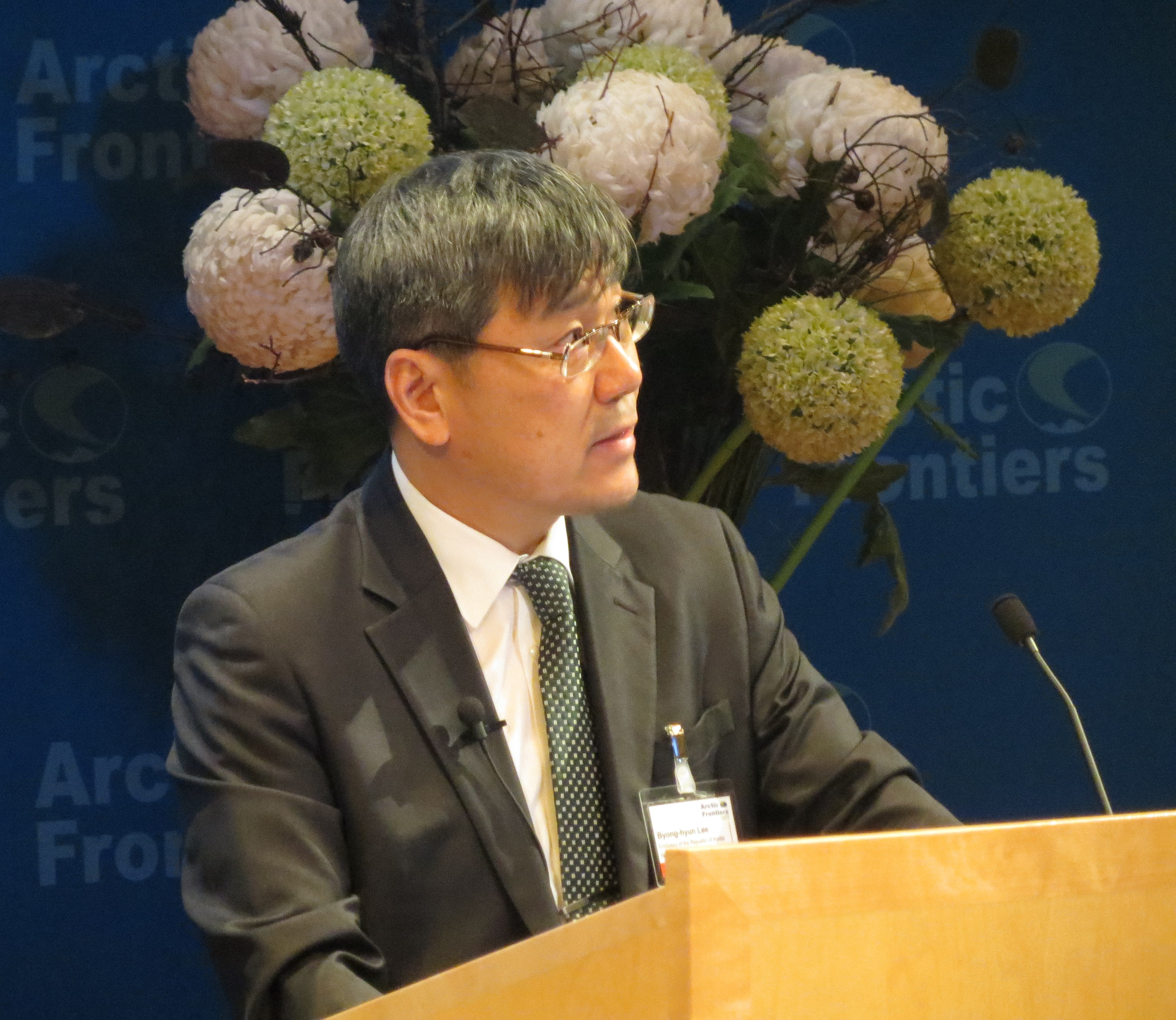 Bying Hyun Lee, korean ambassador to Norway, speaking at the Arctic frontiers conferense in Tromsø, January 21, 2012.